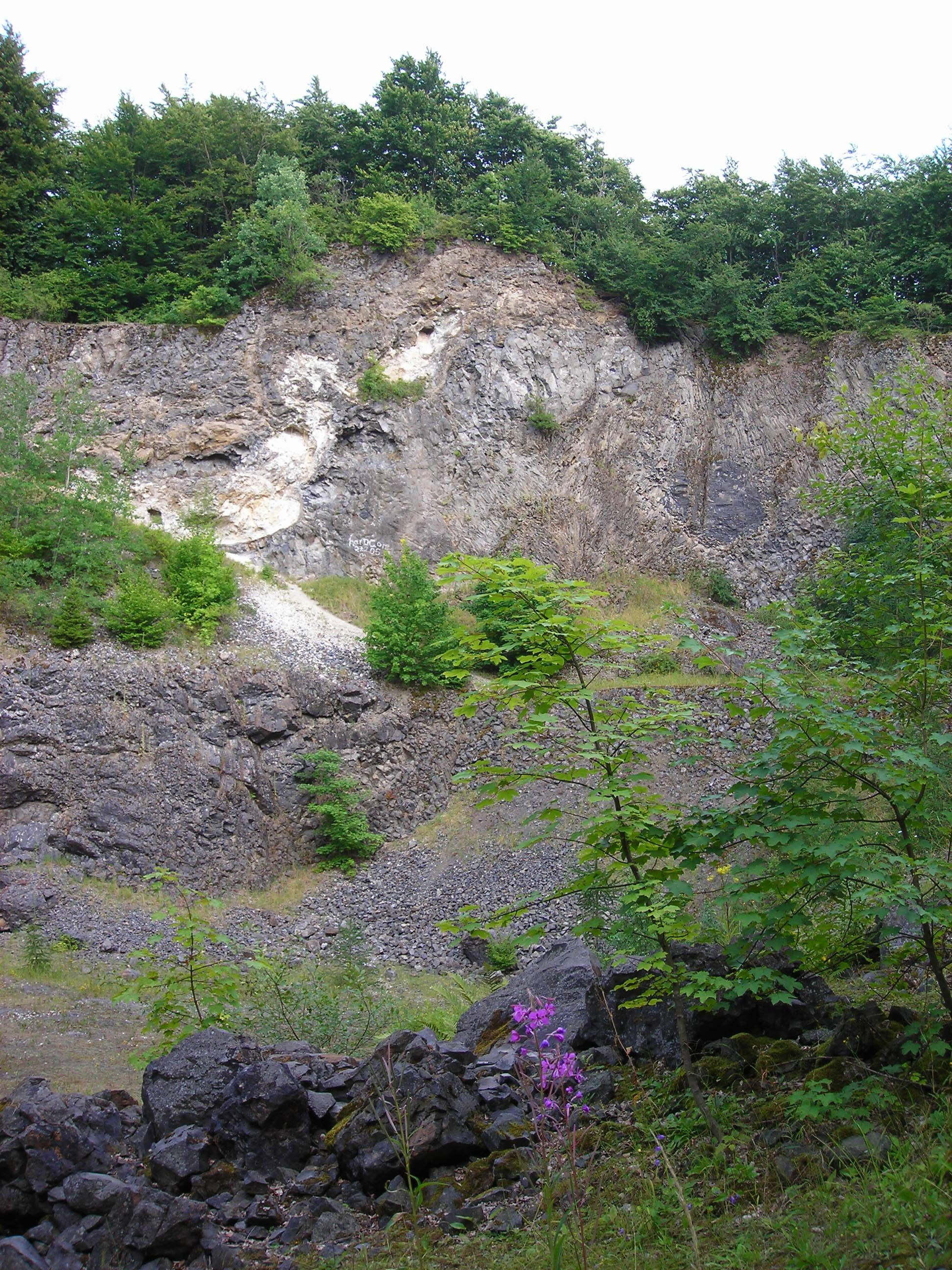 East-Side of the inner Arensberg Crater (Vulkaneifel, germany)